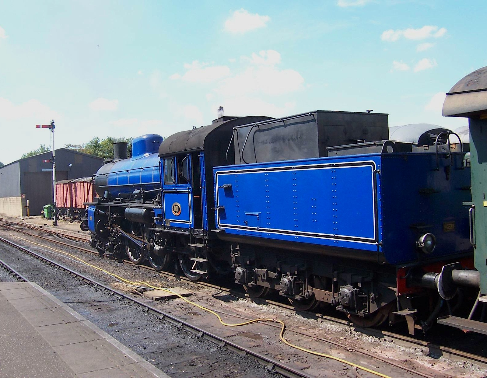 Swedish 4-6-0 Class B No. 101A in steam at Wansford on the Nene Valley Railway